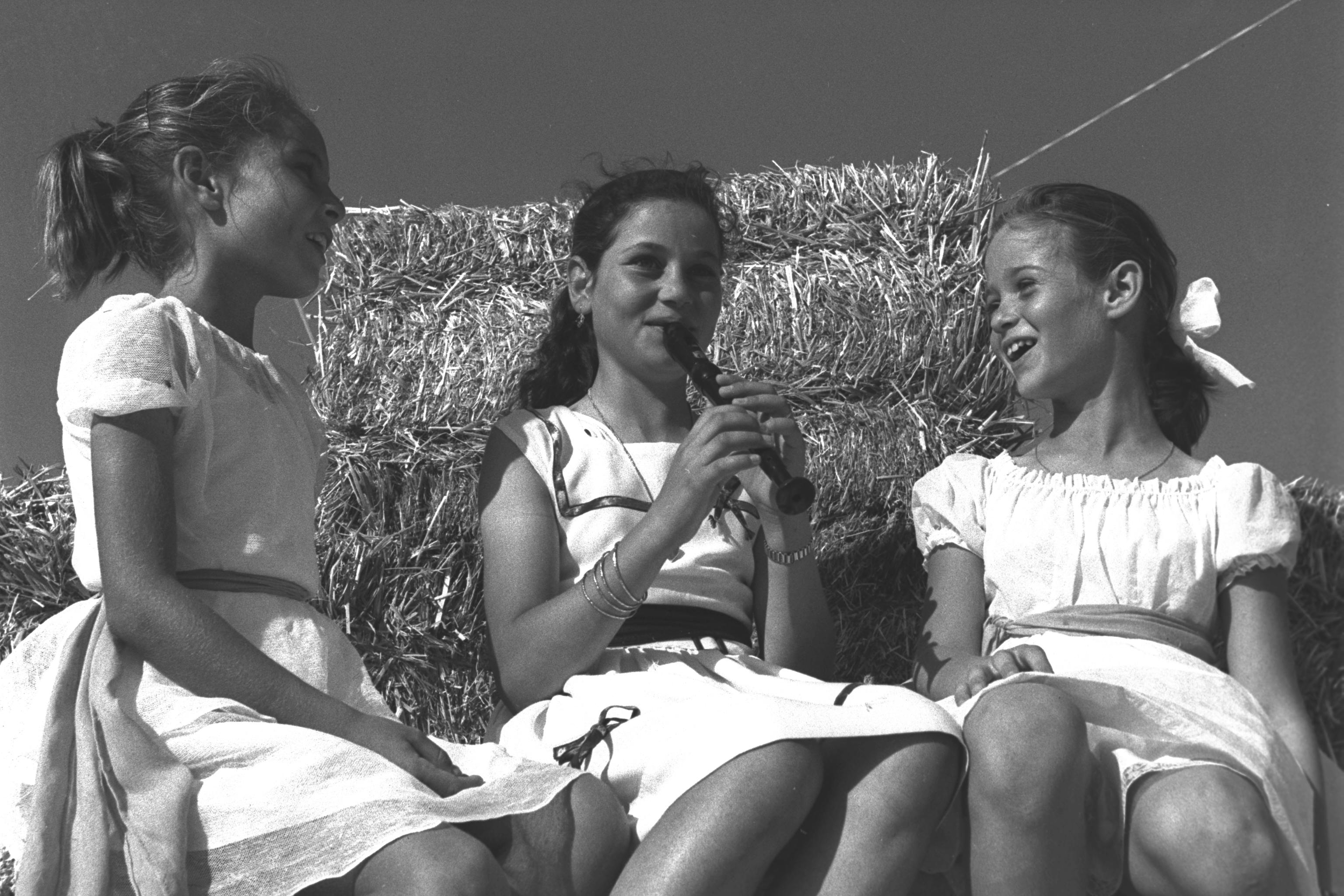 Girls enjoy themselves at a Bikurim celebration during Shavuot at Kibbutz Nachshon. ילדות בפסטיבל ביכורים בקיבוץ נחשון 05/25/1958